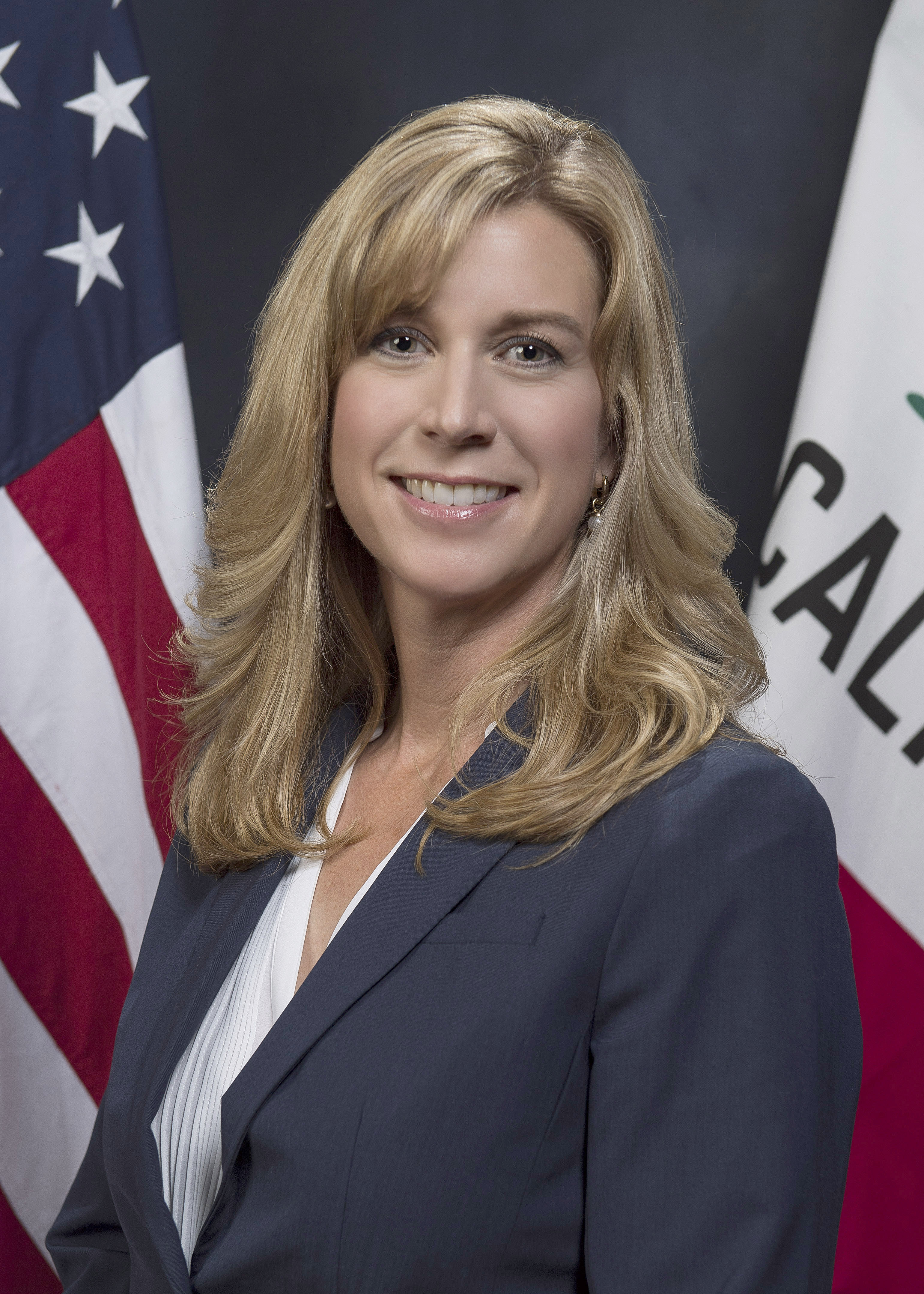 Official California State Assembly photo of Christy Smith